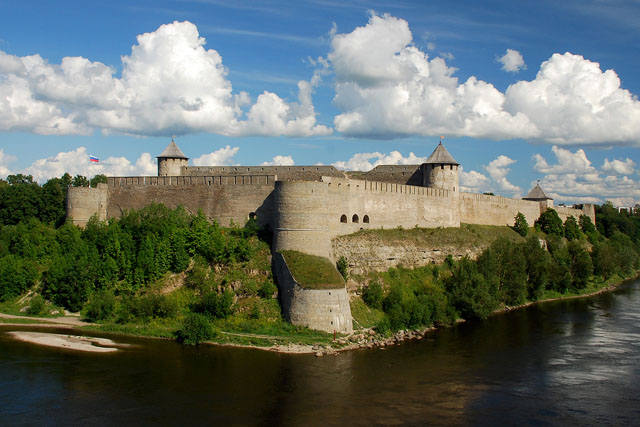 Ivangorod fortress